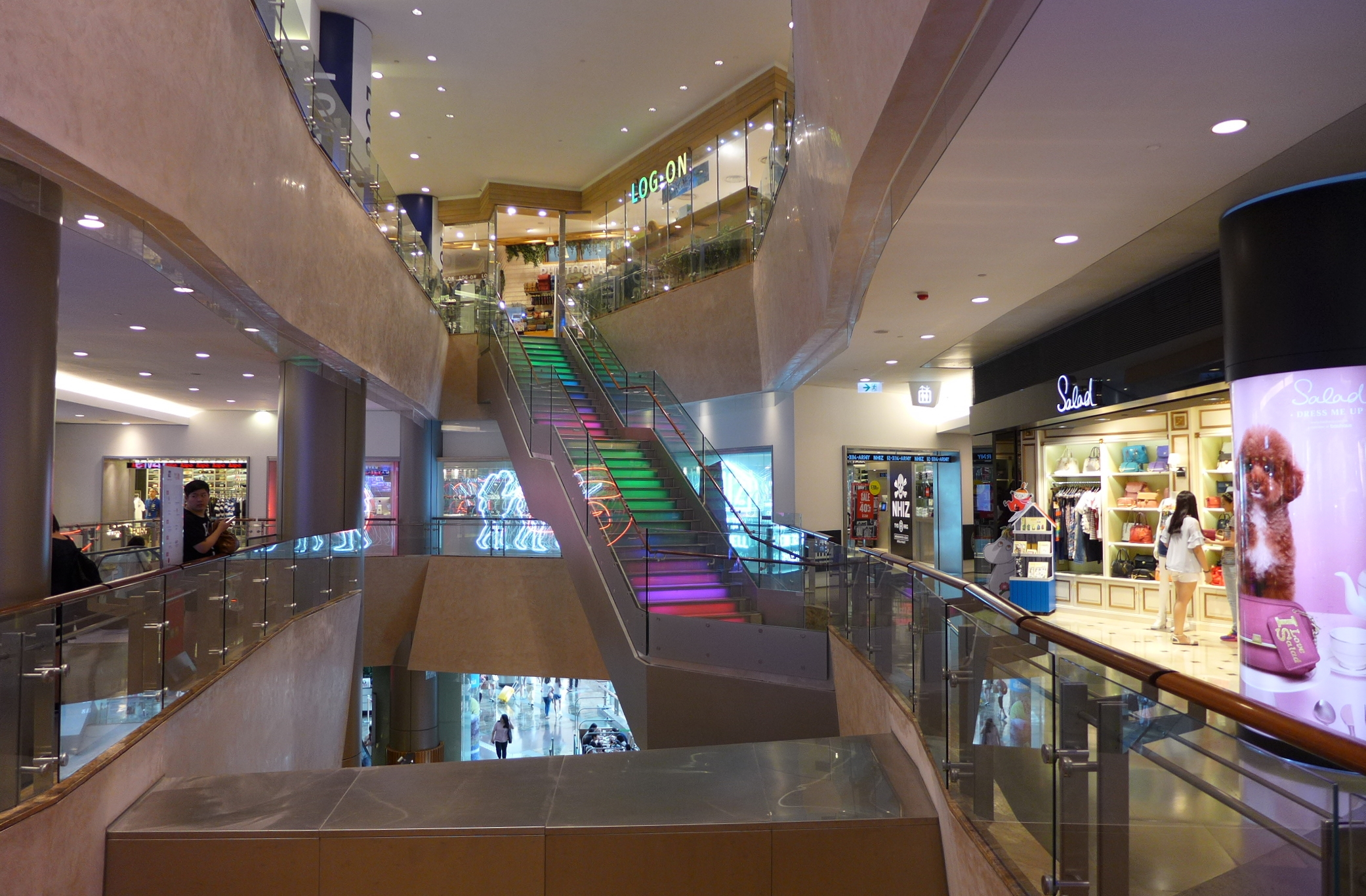 Langham Place L5 to L6 stairs